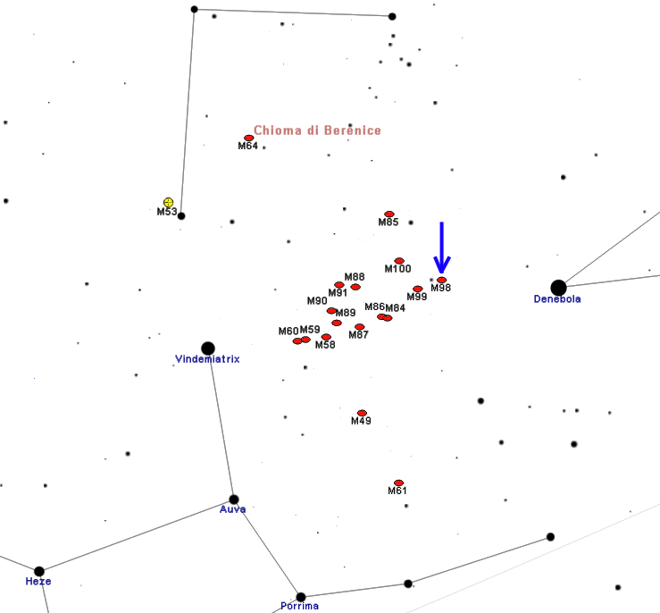 Map of M98